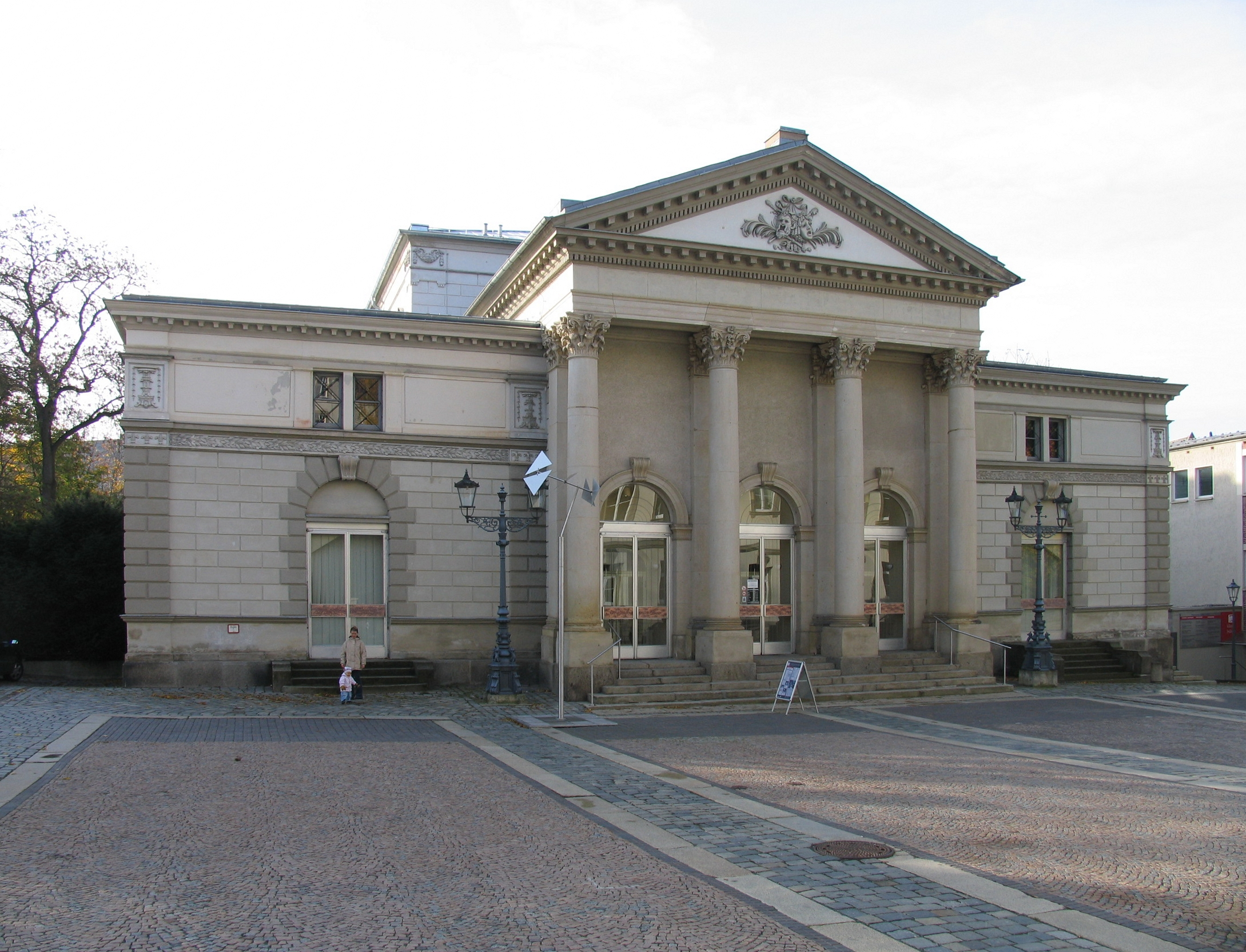 The Vogtland-Theater in Plauen.